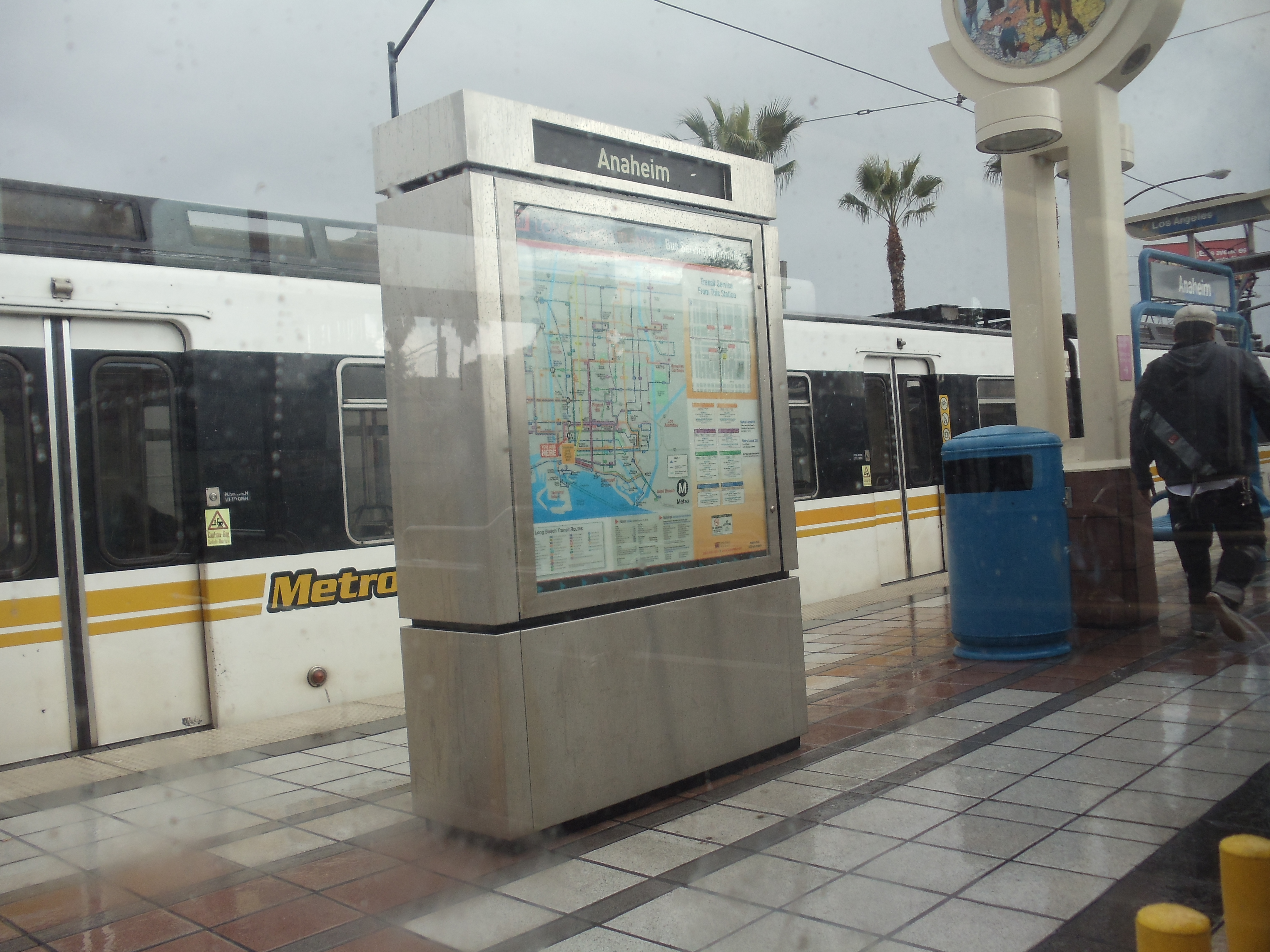 Anaheim Blue Line station.